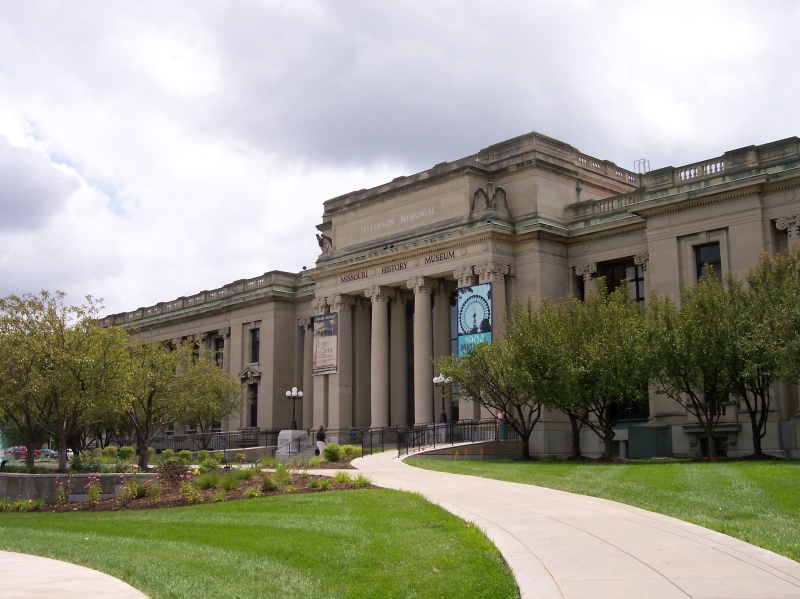 Missouri History Museum